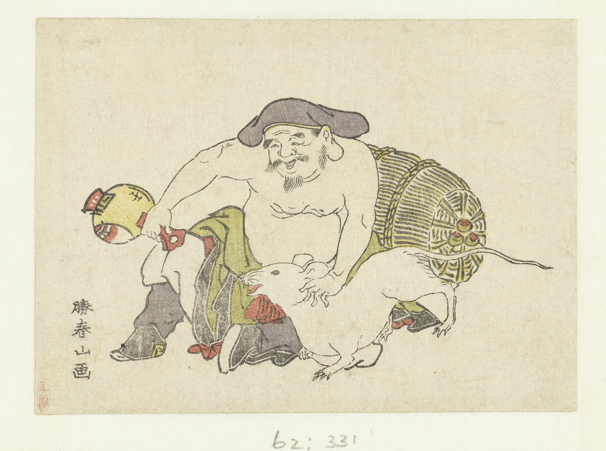 God of happiness, Daikoku, sitting against a rice bag with a hammer in his hand and his pet rat. This print was a calendar for the year 1792, the short months (1, 2, 4, 7, 9, and 11) are visible on the hammer.